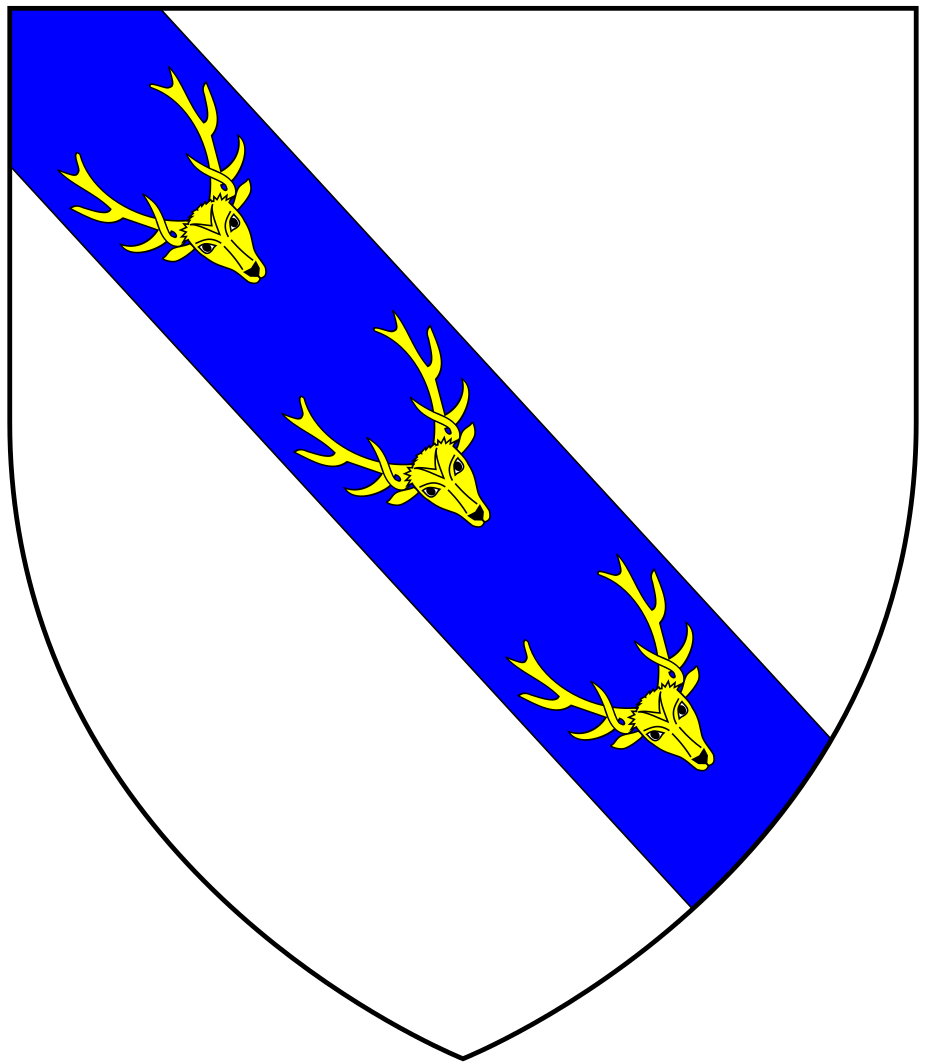 Arms of Stanley, Earls of Derby: Argent, on a bend azure three buck's heads cabossed or (Debrett's Peerage, 1968, p.344). Note: usually shown as stag's heads not with palmated buck's antlers.